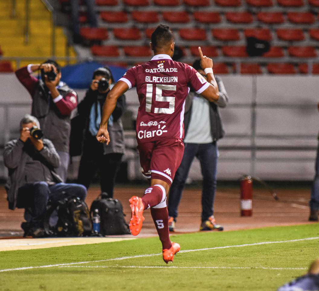 Rolando Blackburn celebrating his first goal for Deportivo Saprissa in July 2016.